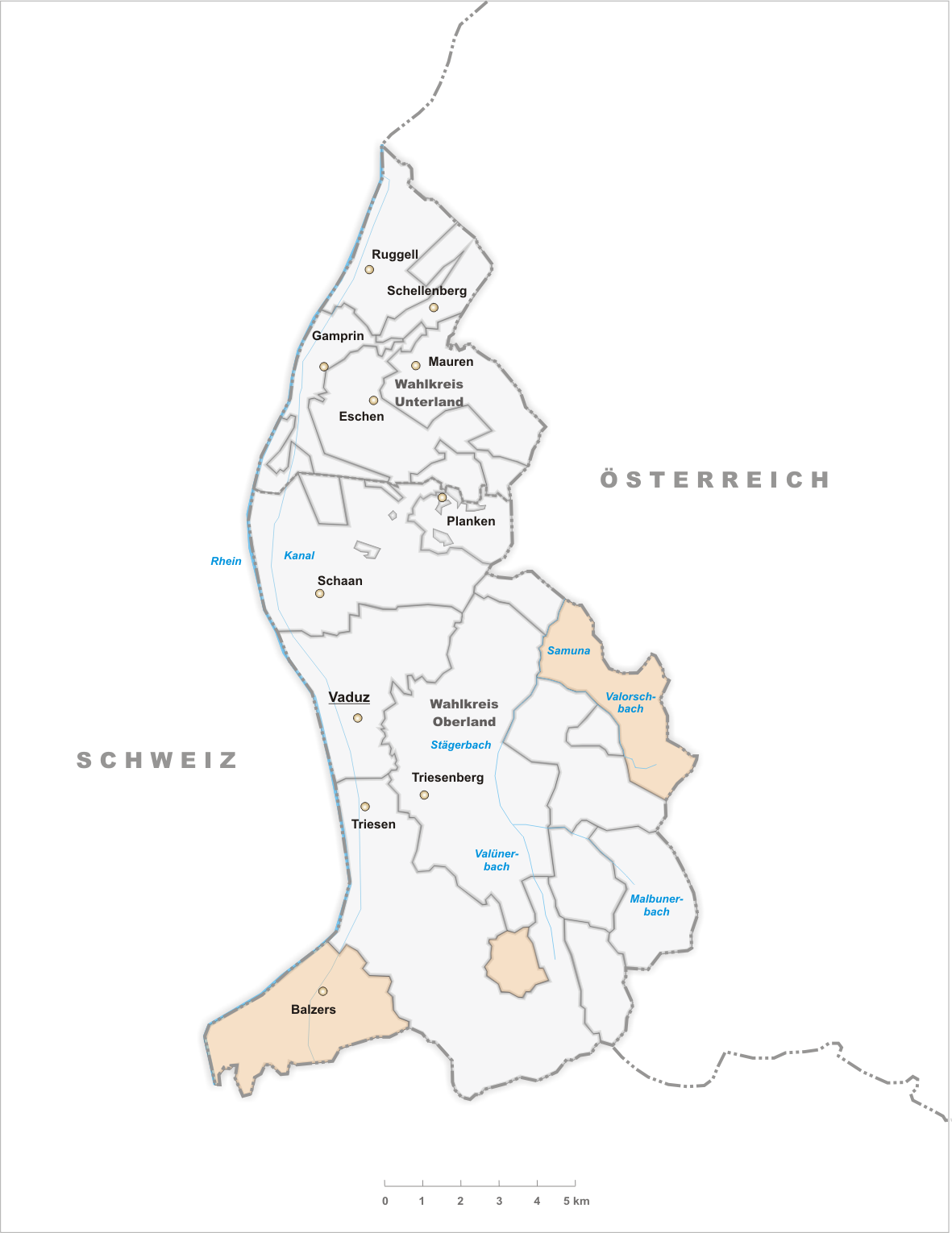 Municipality Balzers